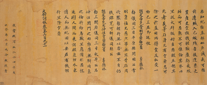 Wenguan cilin (文館詞林, Bunkan shirin, lit. "Forest of officials' poems and prose") fragments. Tang Dynasty imperial poetry collection; other manuscripts of work had been lost in China as early as 9th century. Part of Twelve scrolls. Located at Shōchi-in (正智院?) Kōya, Wakayama.